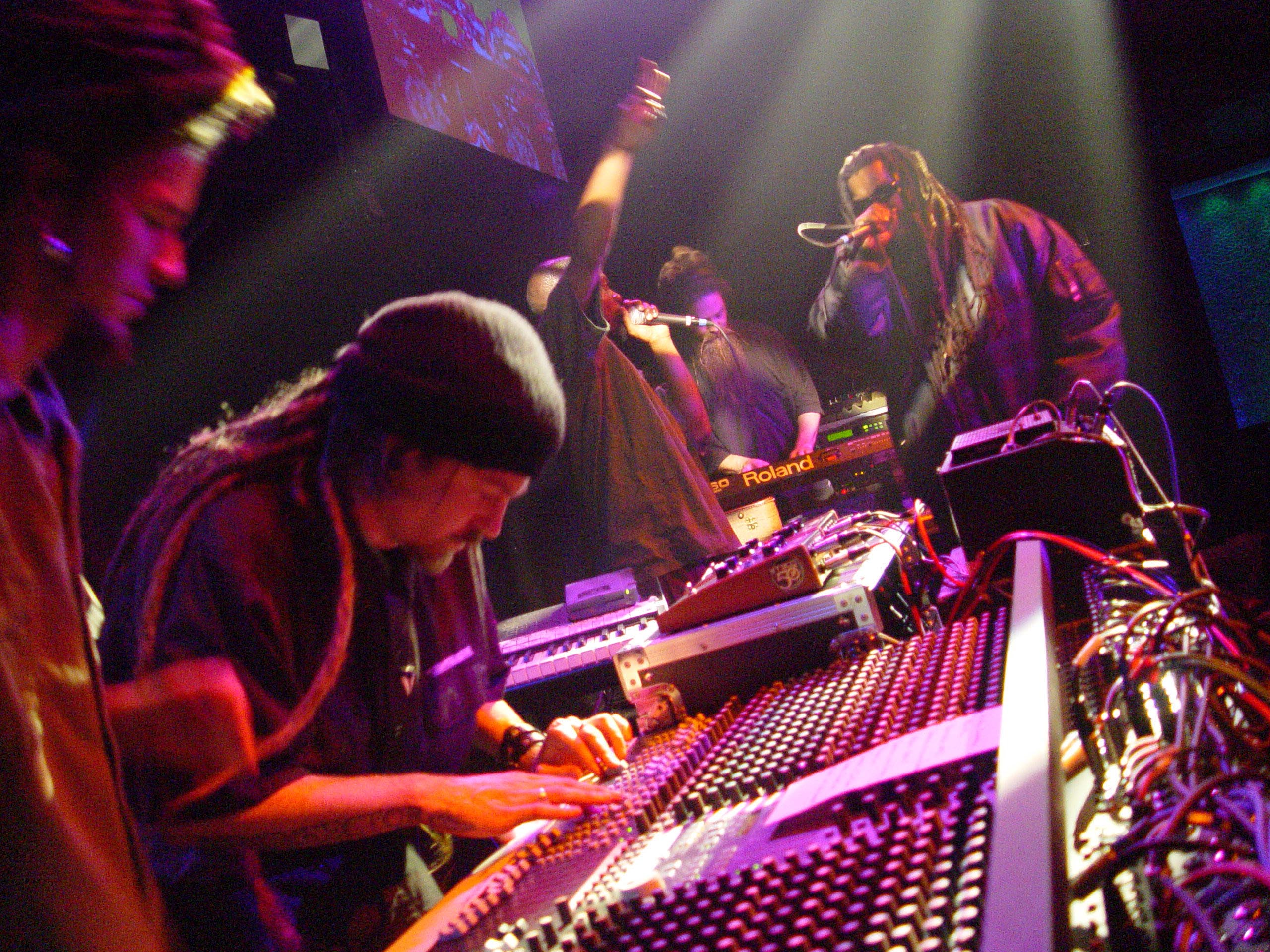 Live photo of Heavyweight Dub Champion